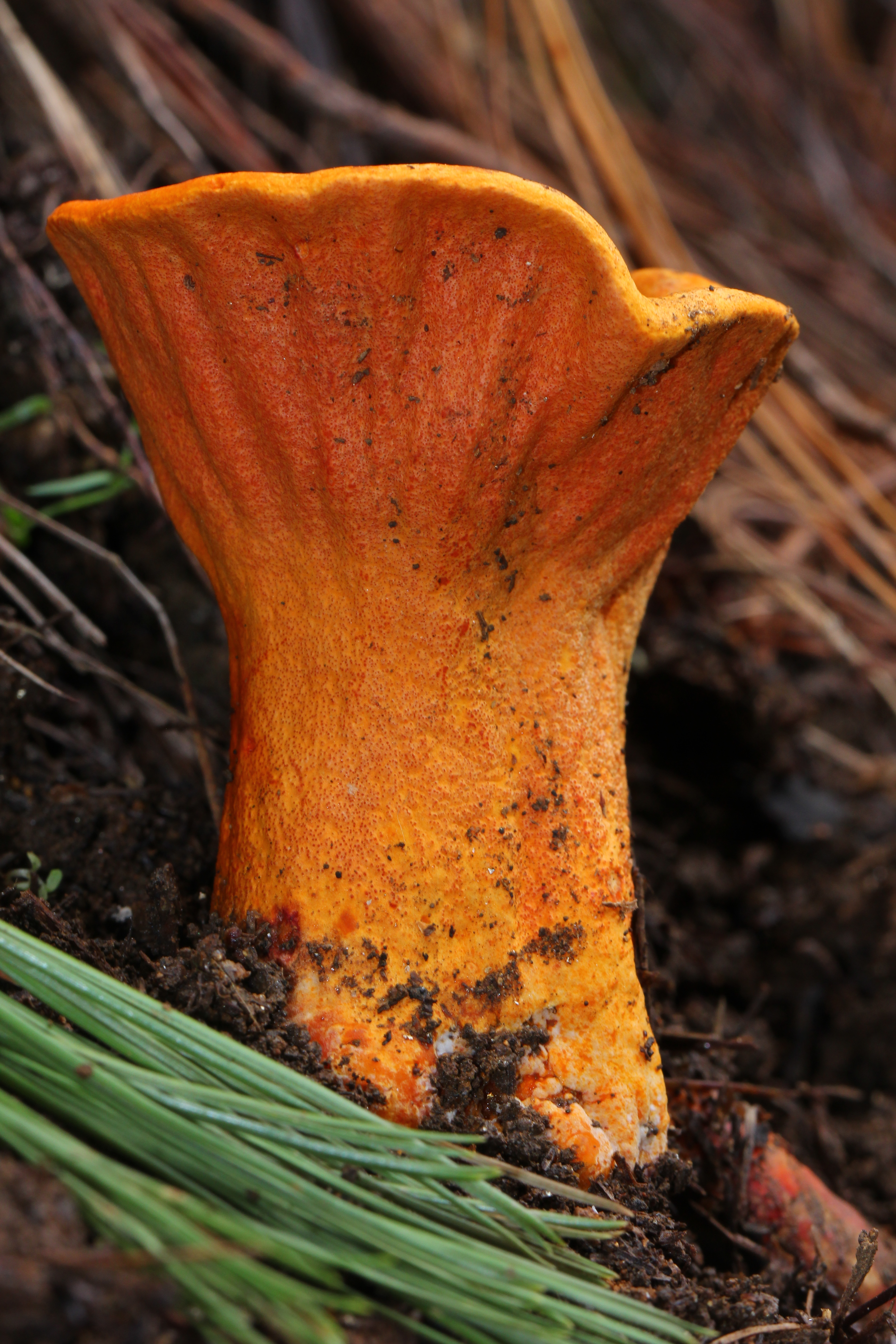 Hypomyces lactifluorum from San Jose del Pacifico, Oaxaca, Mexico. Growing on Russula brevipes. From